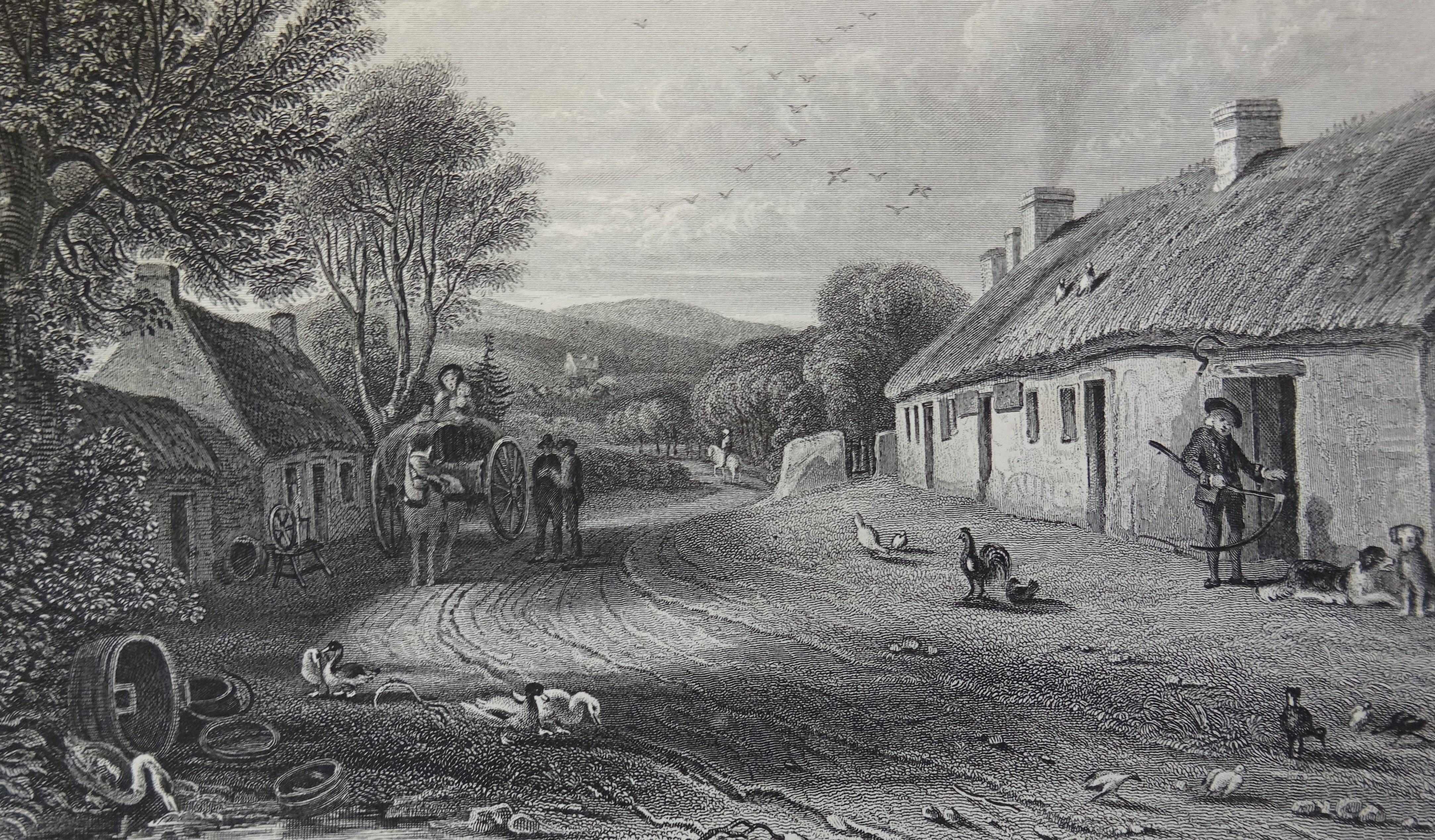 The Robert Burns Alloway Cottage, South Ayrshire. 1890 engraving.